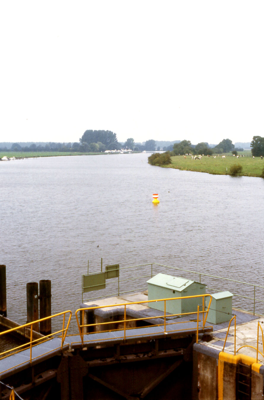 River Weser in the lowland, view from the bridge upon the weir at Drakenburg